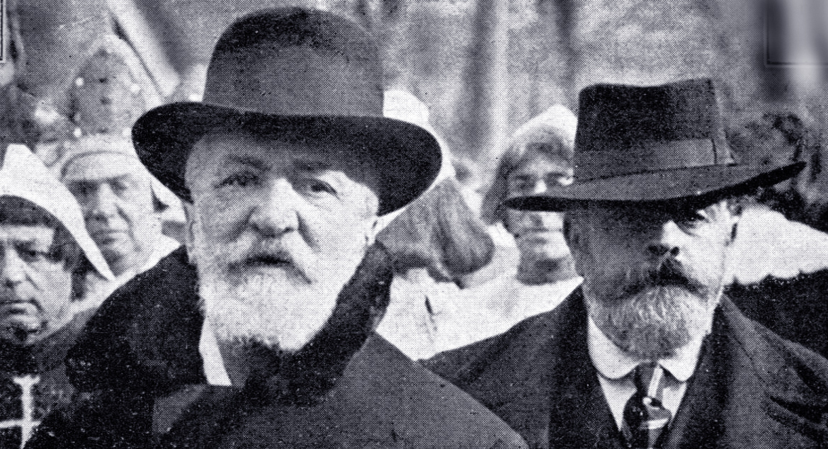 Il musicista Luigi Mancinelli e lo scenografo Duilio Gambellotti sul set del film Giuliano l'apostata (Falena, 1920)- foto del 1919